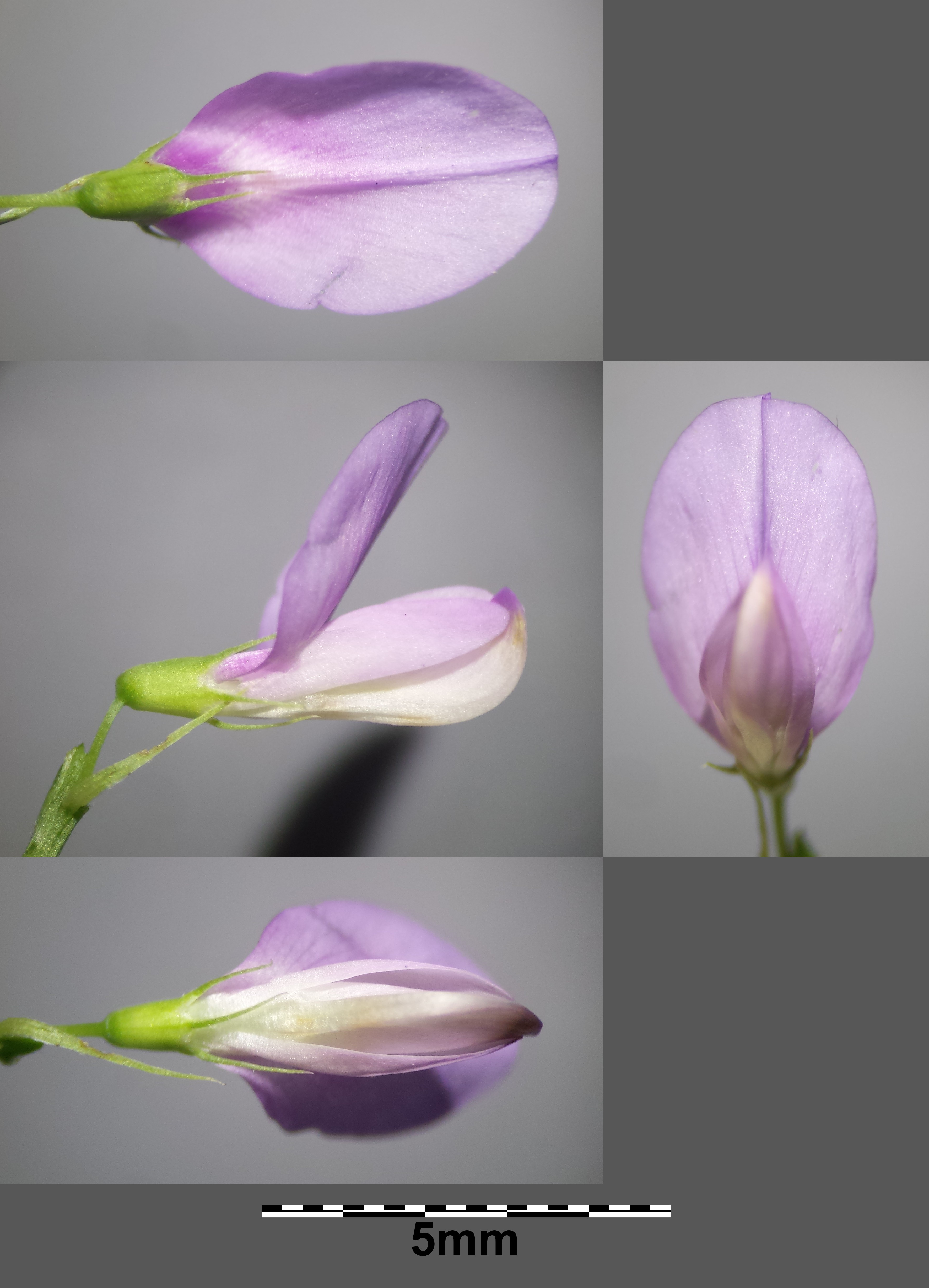 Flower Taxonym: Galega officinalis ss Fischer et al. EfÖLS 2008 ISBN 978-3-85474-187-9 Location: Senningbach next to Hatzenbach, district Korneuburg, Lower Austria - 190 m a.s.l. Habitat: slope of a stream